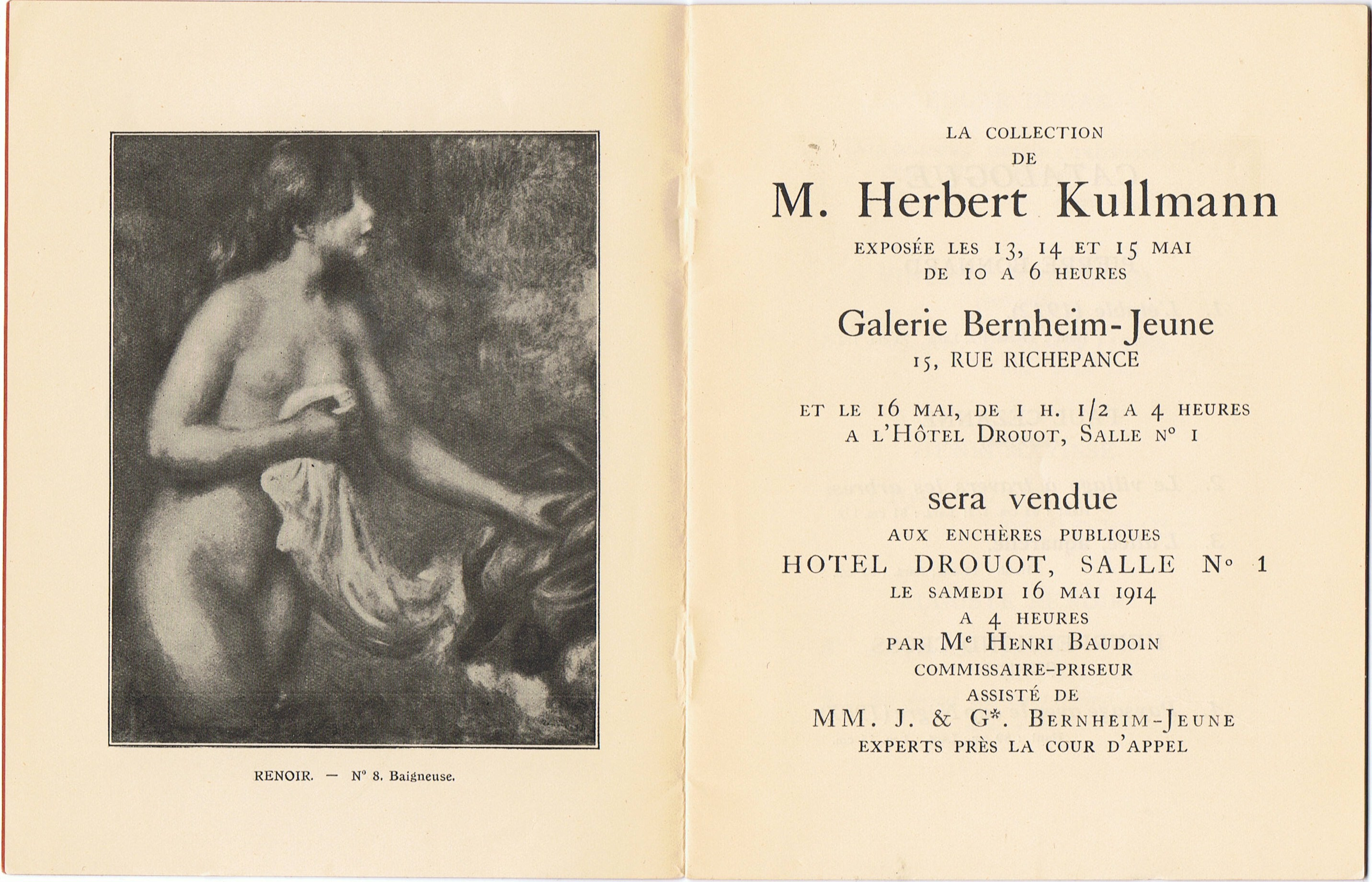 Frontispiece for an auction held at Drouot on May 1914. (Photo/scan of catalogue taken by me RodolphRodolph (talk) 01:02, 18 July 2013 (UTC) in 2013.